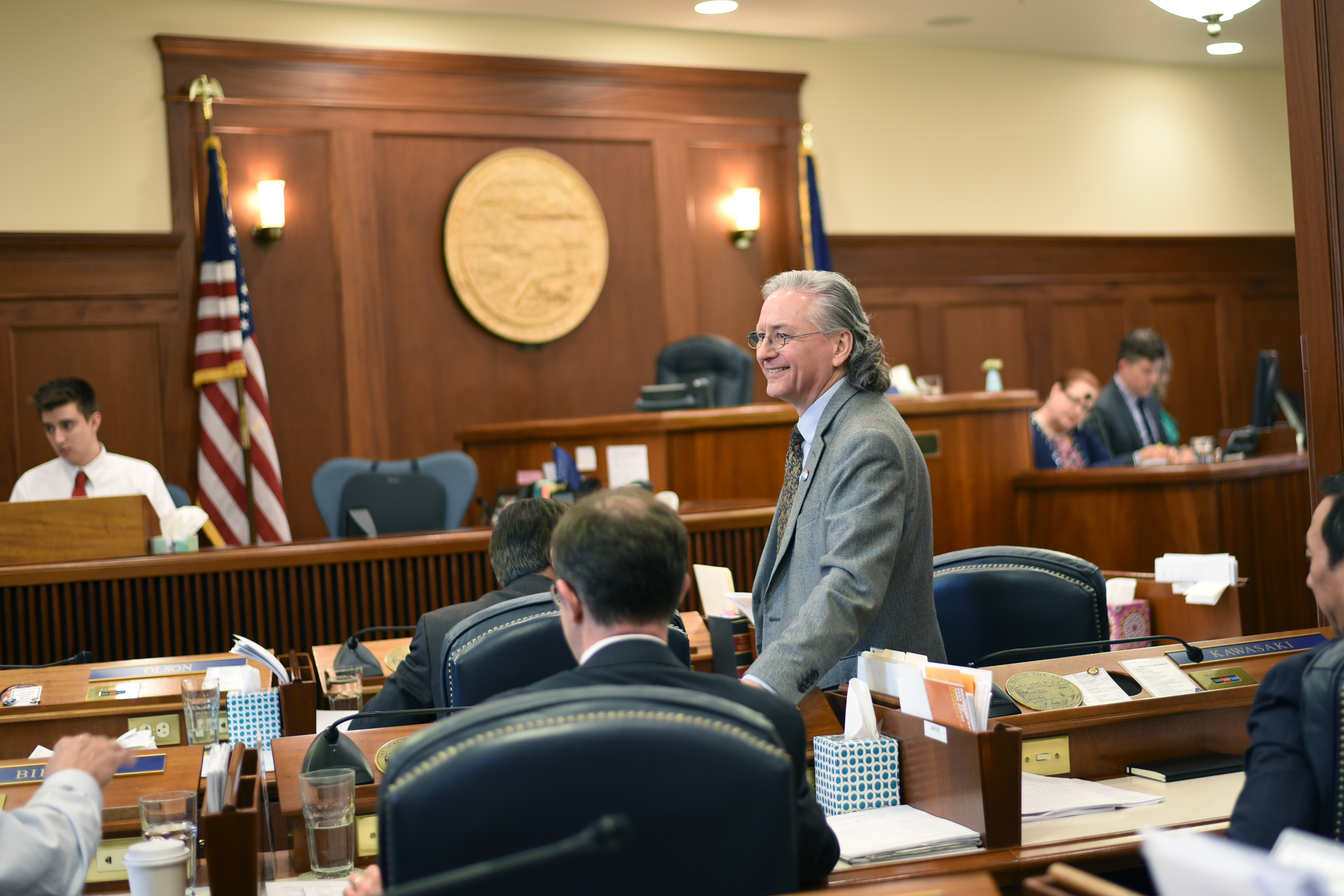 This photo is provided under a Creative Commons Attribution license. Please provide the following credit: "Photo used under Creative Commons license courtesy Paxson Woelber, The Alaska Landmine"